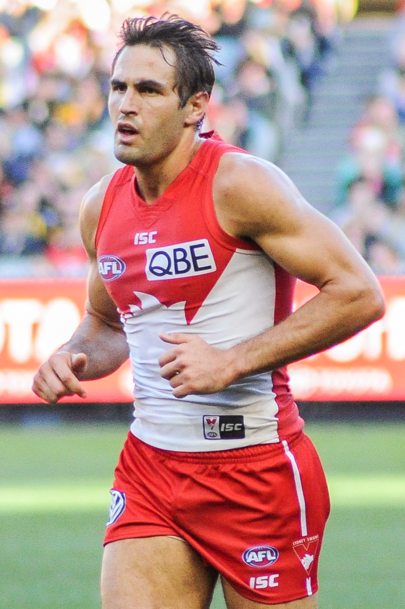 Josh Kennedy during the AFL round thirteen match between Richmond and Sydney on 17 June 2017 at the Melbourne Cricket Ground in Melbourne, Victoria.